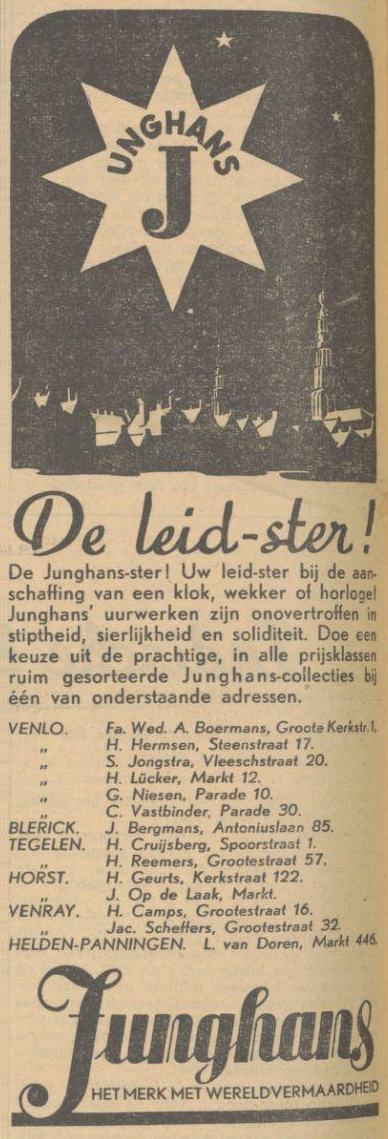 Junghans 1938 Dutch advertisment De leid-ster (Junghans The lodestar)